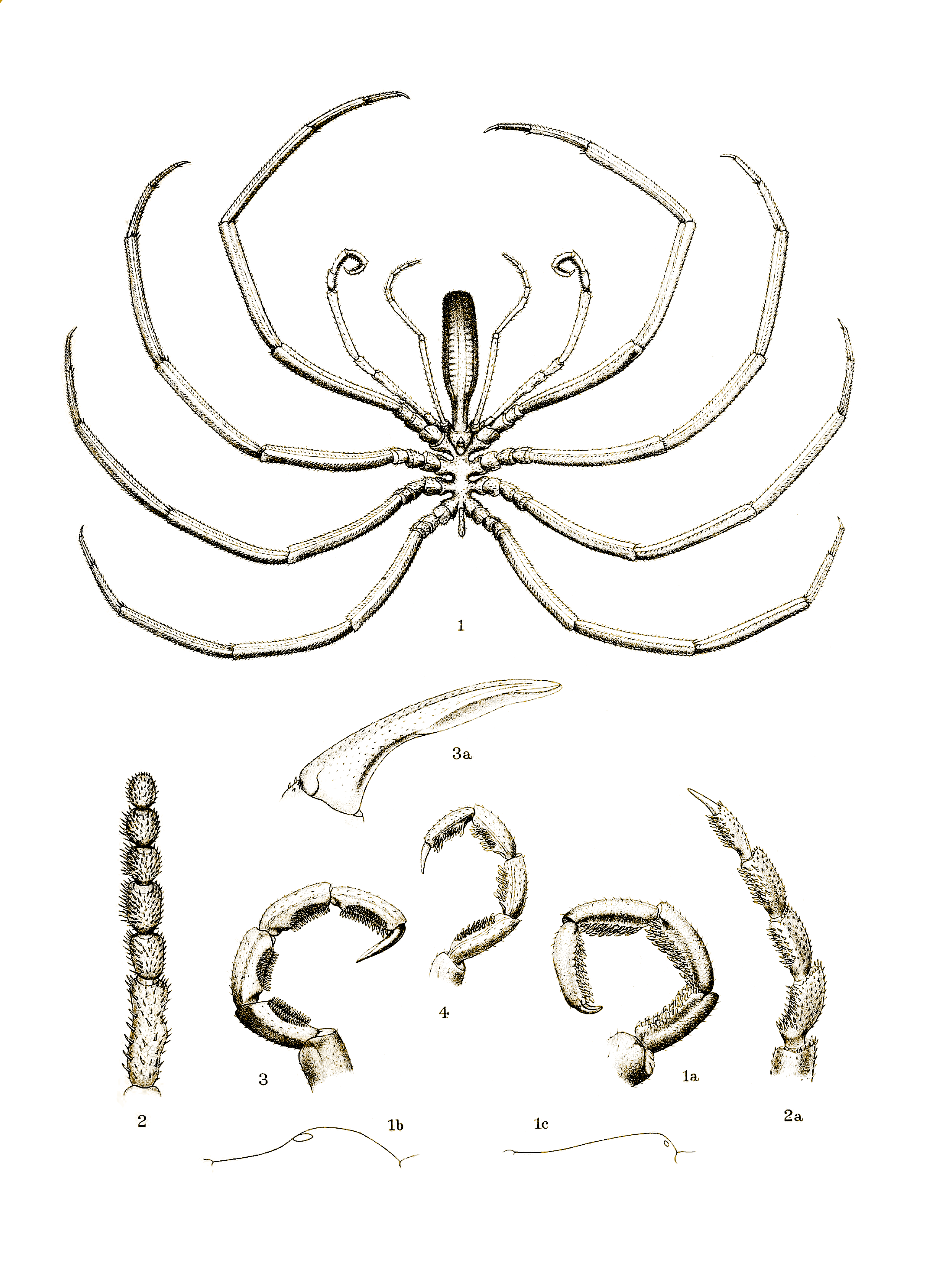 Drawings from the original description of Colossendeis australis from Hodgson 1907